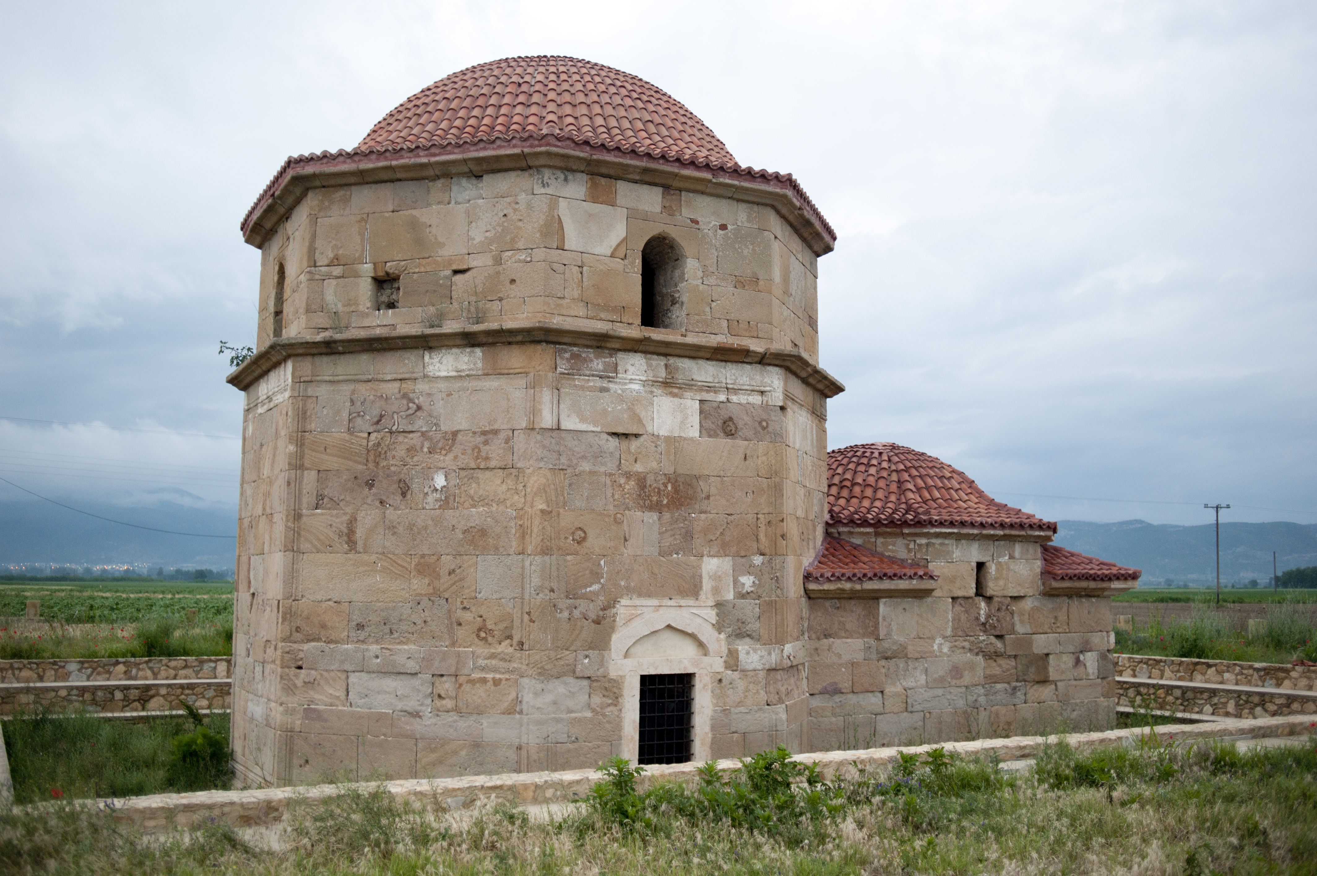 Kütüklü Baba Tekkesi (Bektashi), Selino, Rhodope, West Thrace, Greece.